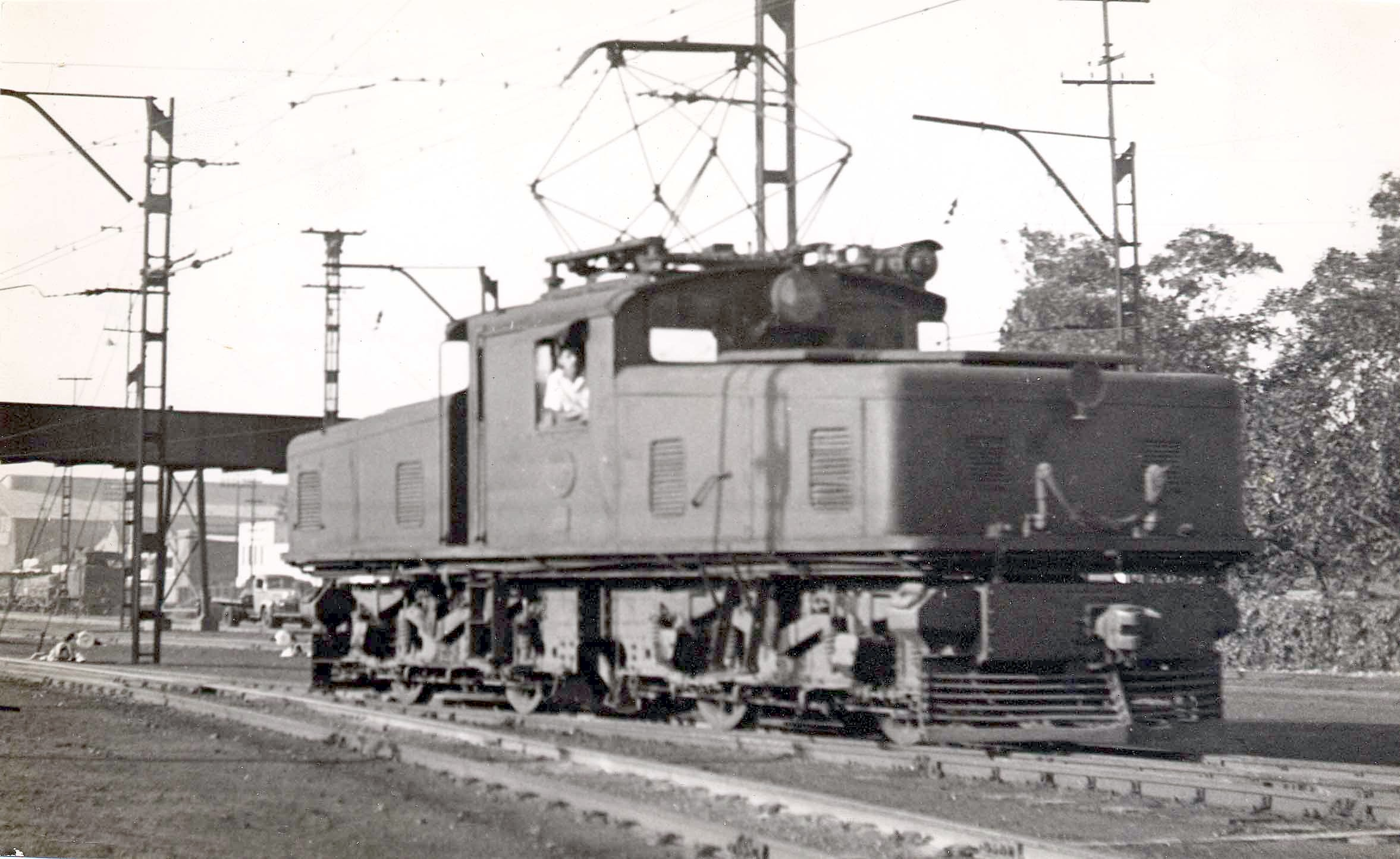 SAR Class ES, the original Class ES shunter, ex Class 1E.